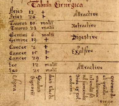 A table on medical astrology. From an Icelandic manuscript, JS 392 8vo, written between 1747 and 1752. Now in the care of the Árni Magnússon Institute in Iceland.